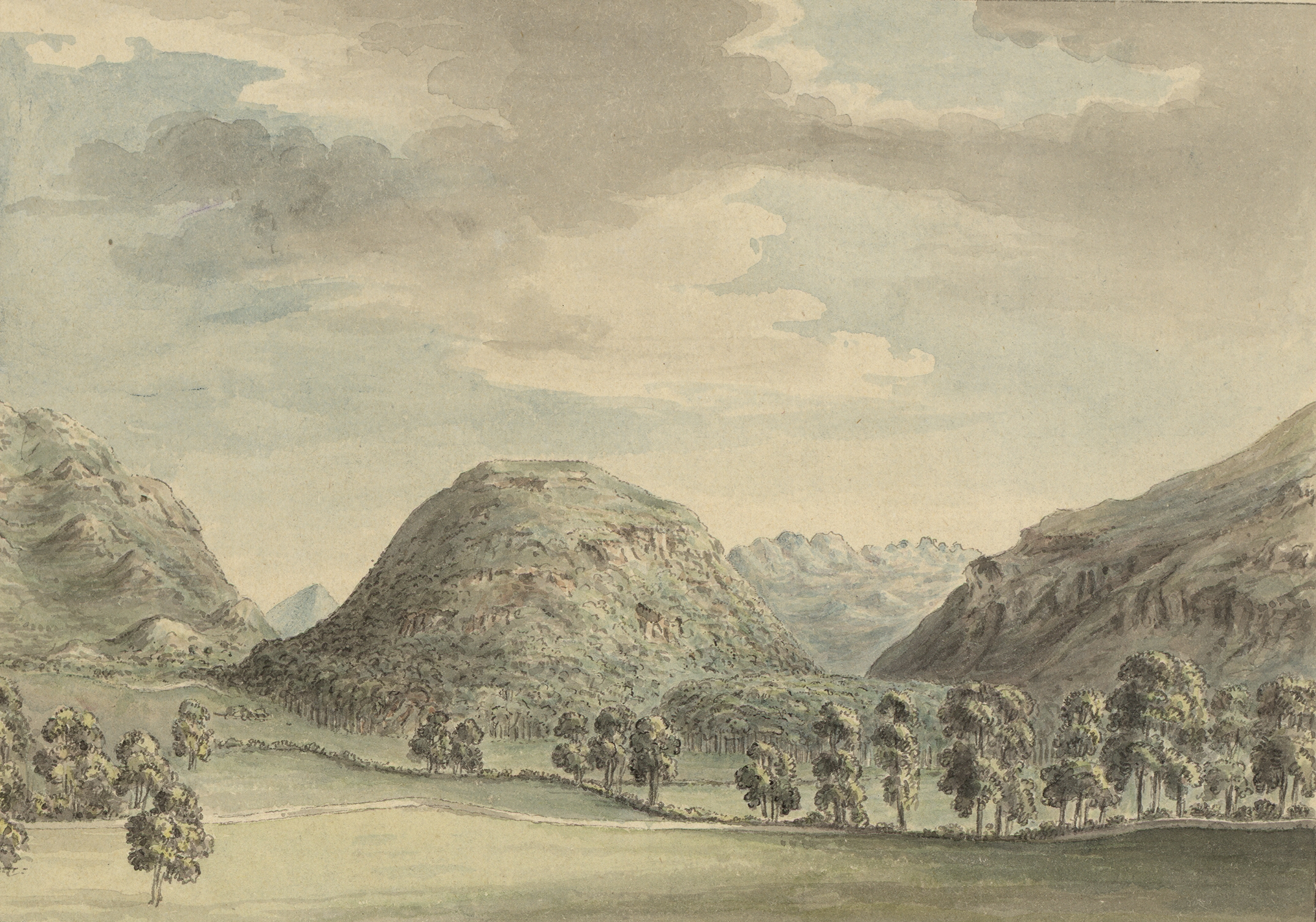 An image from a set of 8 extra-illustrated volumes of A tour in Wales by Thomas Pennant (1726-1798) that chronicle the three journeys he made through Wales between 1773 and 1776. These volumes are unique because they were compiled for Pennant's own library at Downing. This edition was produced in 1781. The volumes include a number of original drawings by Moses Griffiths, Ingleby and other well known artists of the period. Thomas Pennant (1726-1798)